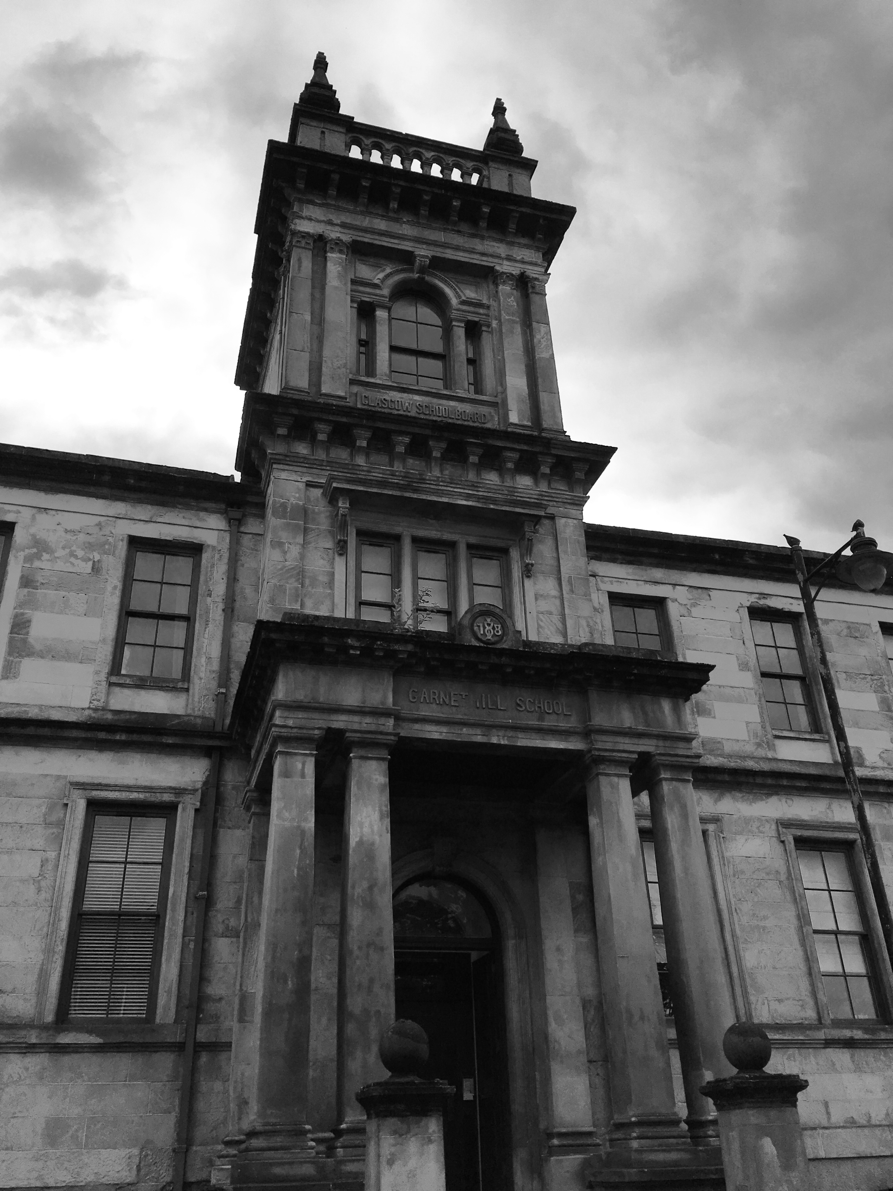 Glasgow, 91 Buccleuch Street, Garnethill High School For Girls. Wikidata has entry Q17805290 with data related to this item.